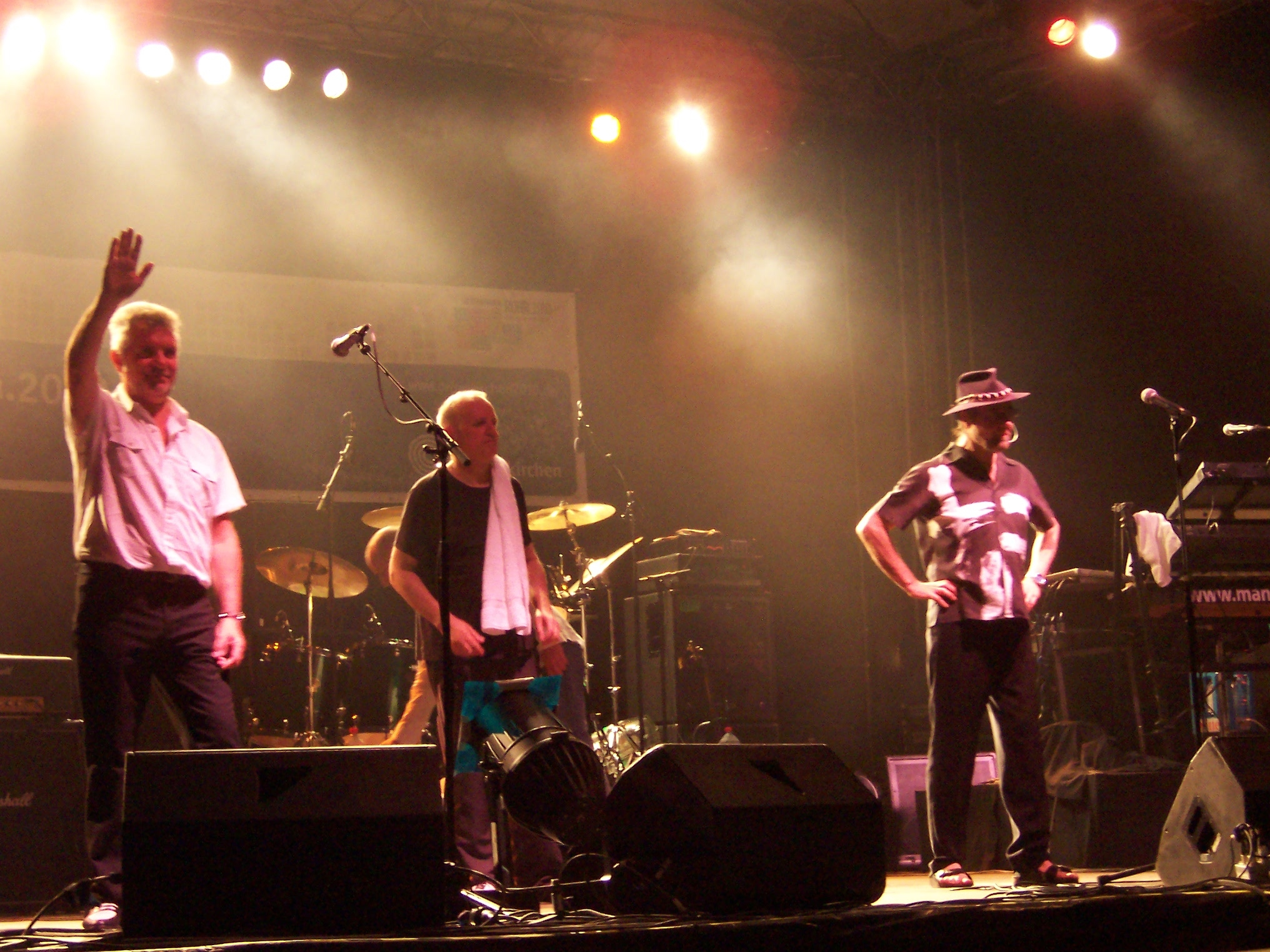 Manfred Mann's Earth Band live in Gelsenkirchen, Germany.